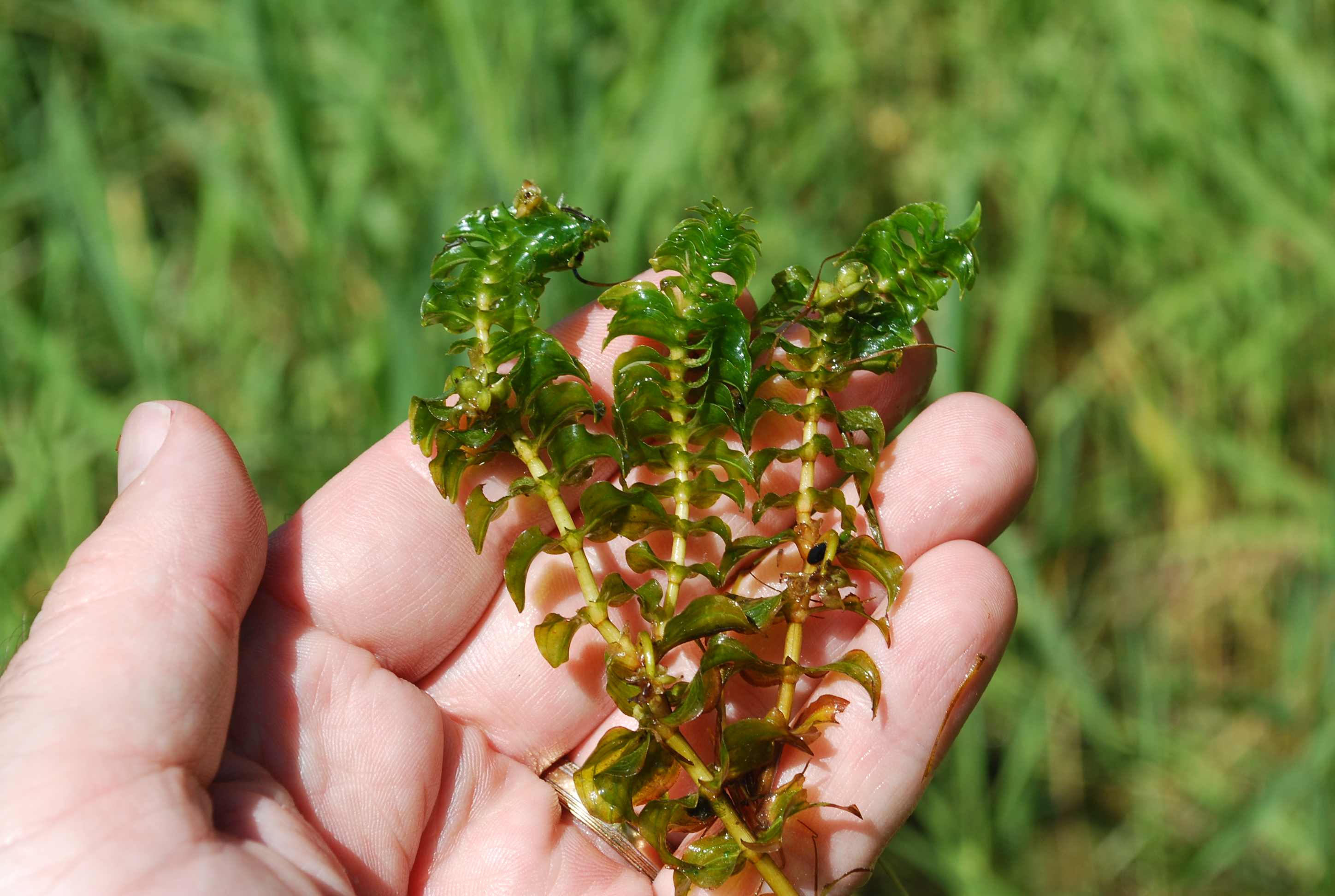 Groenlandia densa